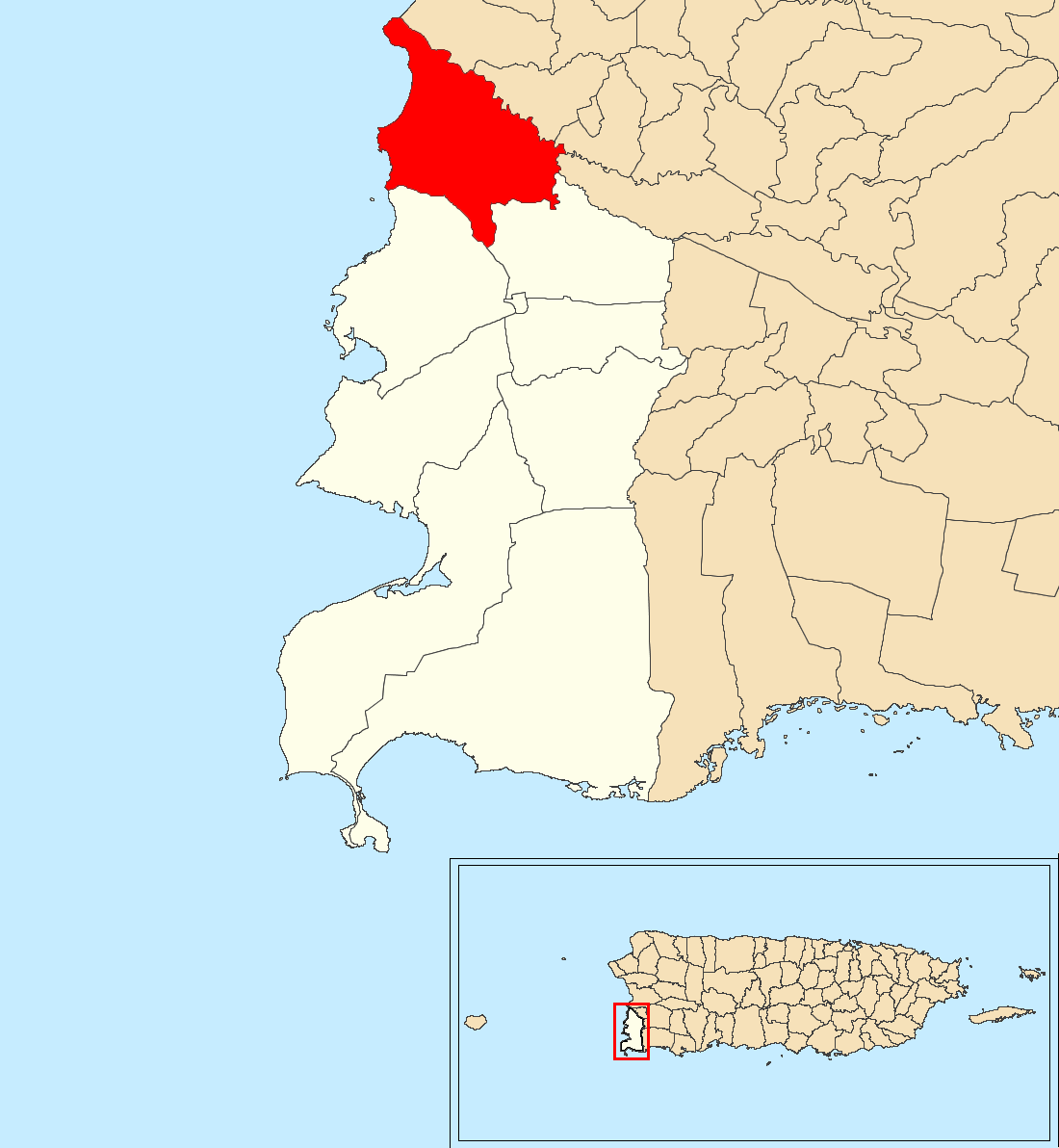 Guanajibo, Cabo Rojo, Puerto Rico locator map